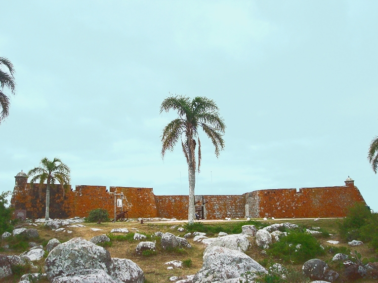 Fuerte San Miguel, 8km west of Chui, near the border with Brazil, Uruguay.